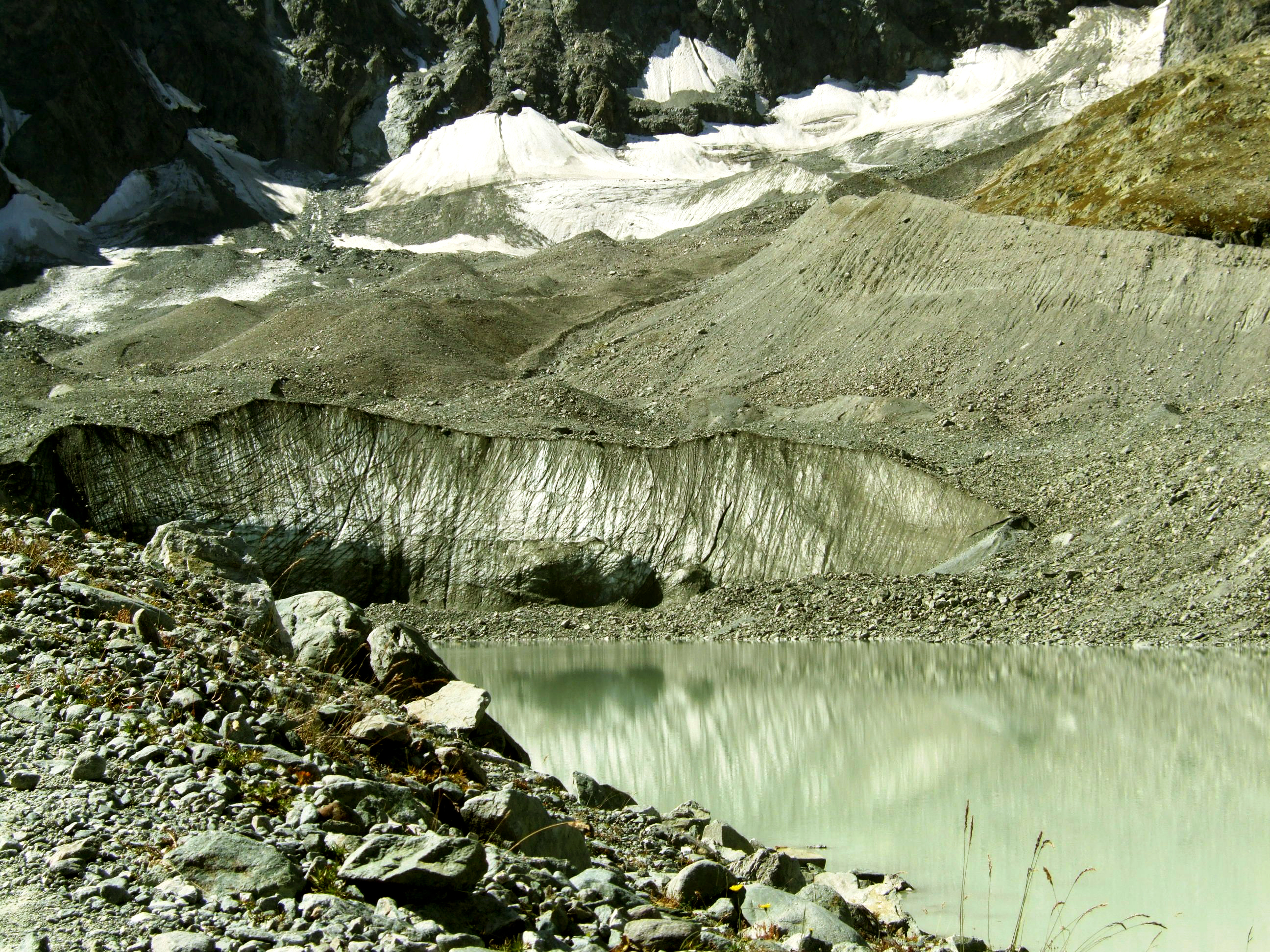 Glacier Lake Arsine in Parc National des Ecrins.